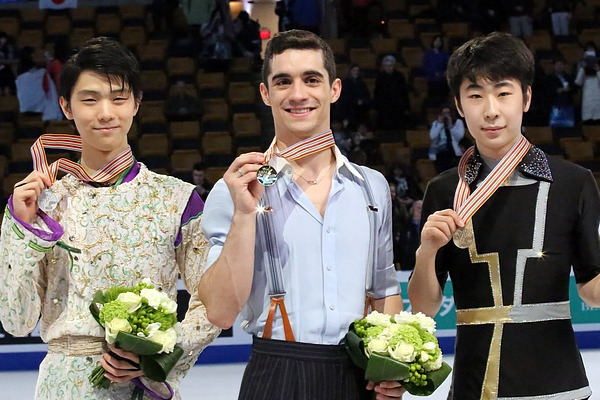 The Men's podium at the 2016 World Figure Skating Championships.From left: Yuzuru Hanyu (2nd), Javier Fernández (1st), Jin Boyang (3rd).